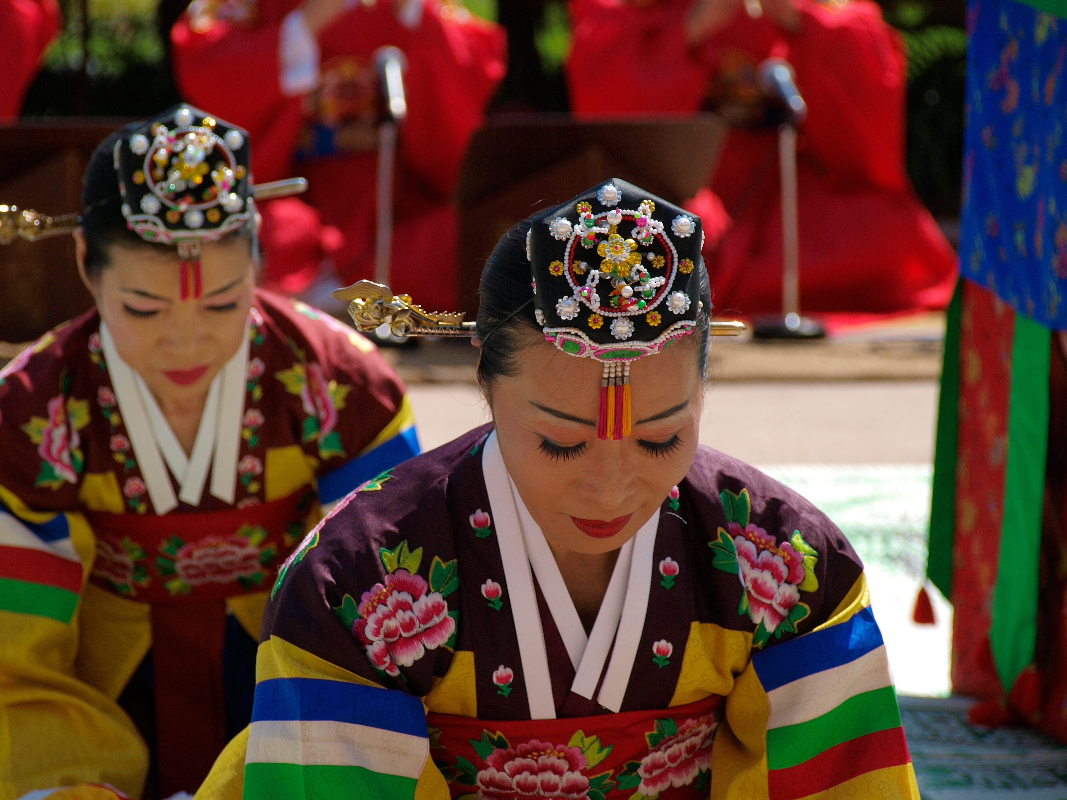 Jinju pogurakmuk is a variety of pogurakmu, literally meaning ball-throwing dance which has been handed down to Jinju, South Korea. Pogurakmu is one of Korean royal court dance. The performance was held in Sep. 10th, 2008 at Deoksugung, Seoul, South Korea. Further readings in Korean.[1][2]